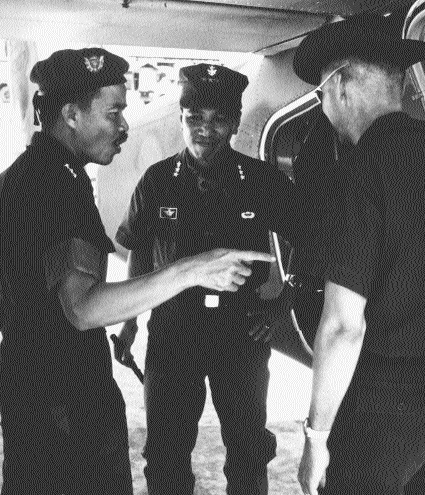 From the book: "Lt. Gen Nguyen Chanh Thi, I Corps Commander (left), and Lt. Gen Nguyen Van Thieu, Vietnamese Chief of State, (center) at Da Nang Air Base, South Vietnam, January 1966"